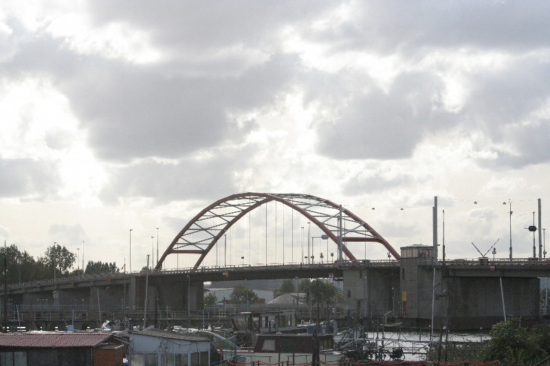 Schellingwouderbrug, Amsterdam, Netherlands. Direction of view: towards the SW.